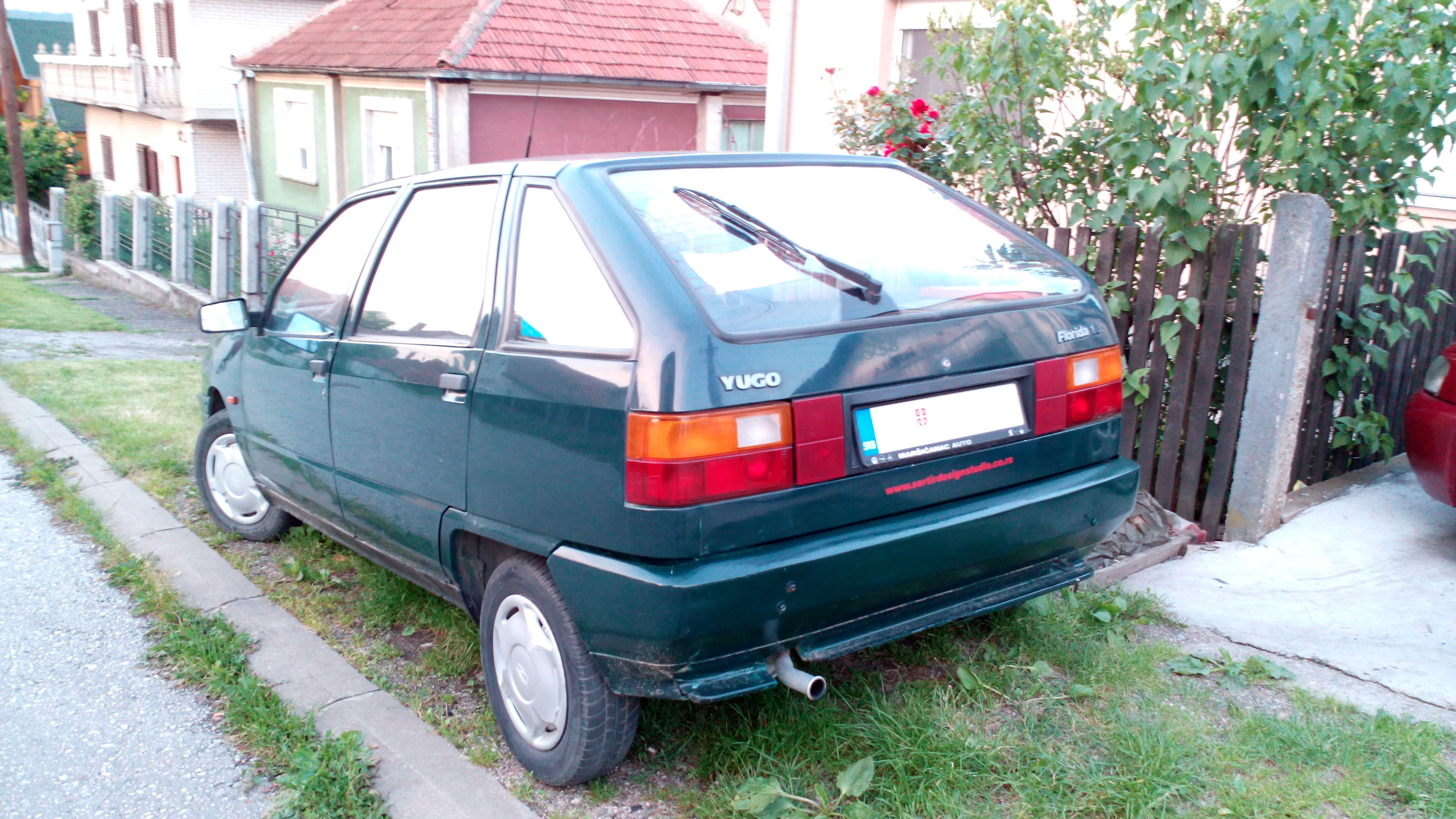 Yugo Florida 1.3 in Kragujevac